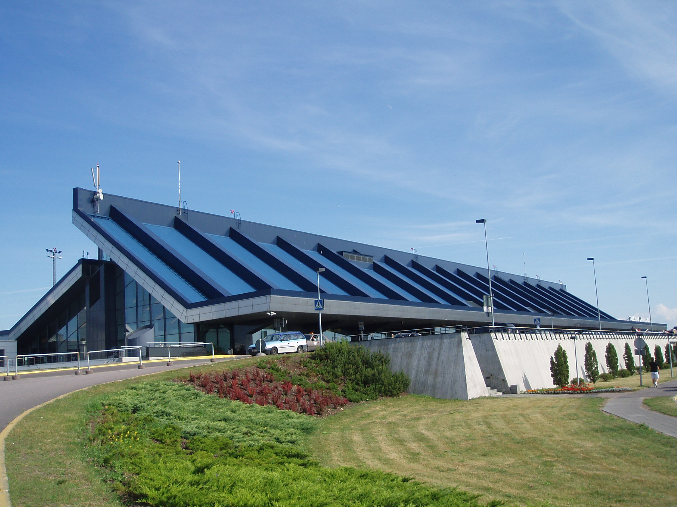 Tallinn Airport on 03 July 2006